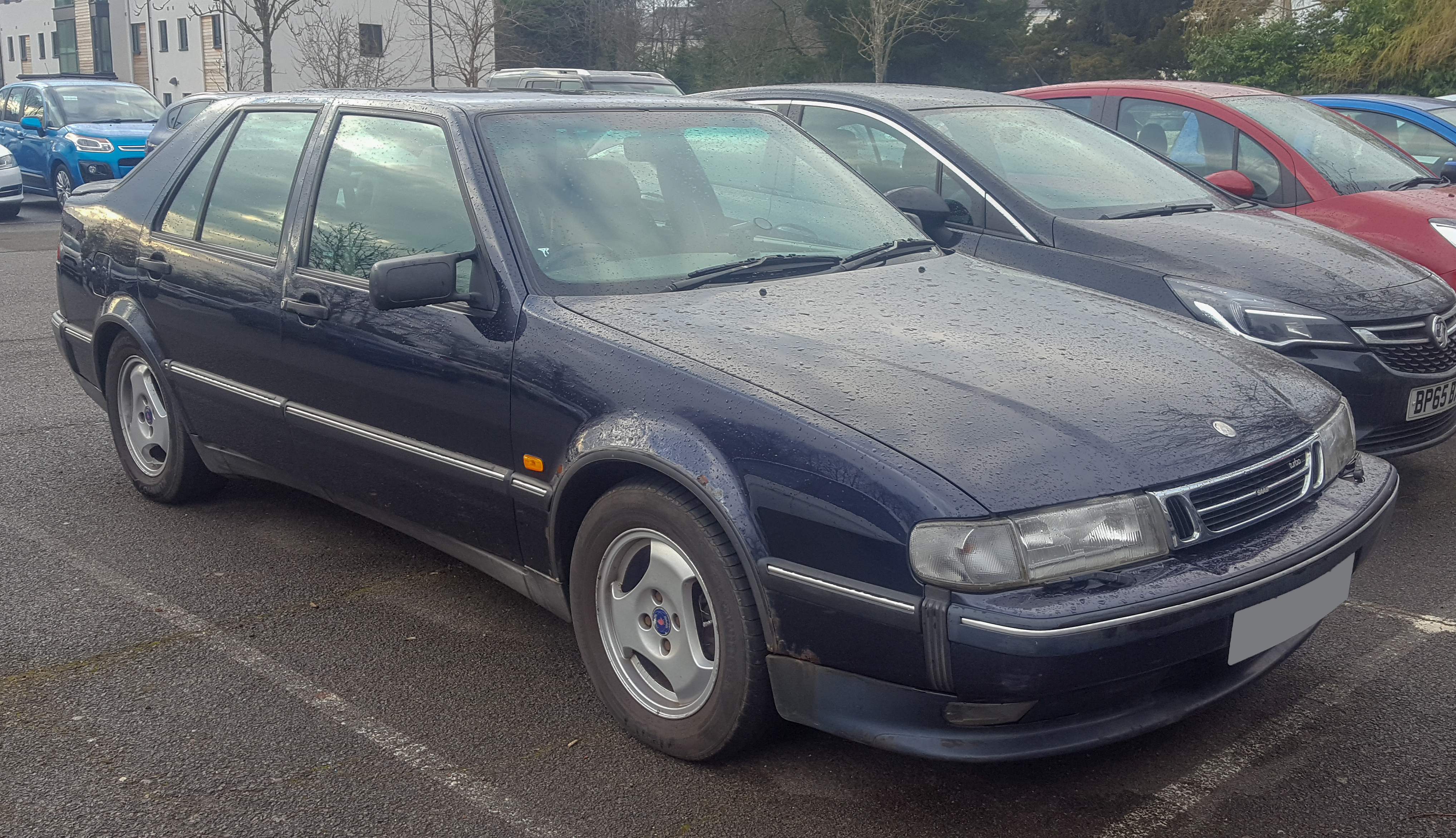 1998 Saab 9000 CSE Turbo 2.3 Front Taken in Leamington Spa